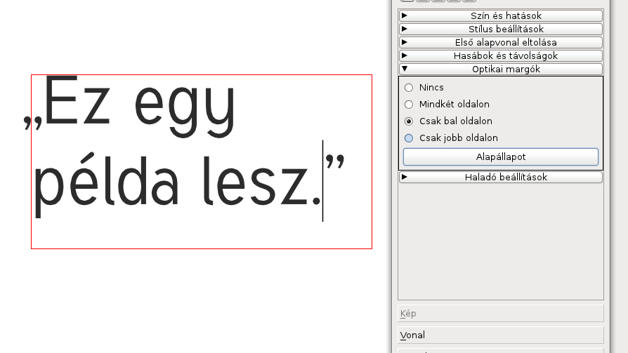 Optical margin settings in publishing program Scribus localized Hungarian.